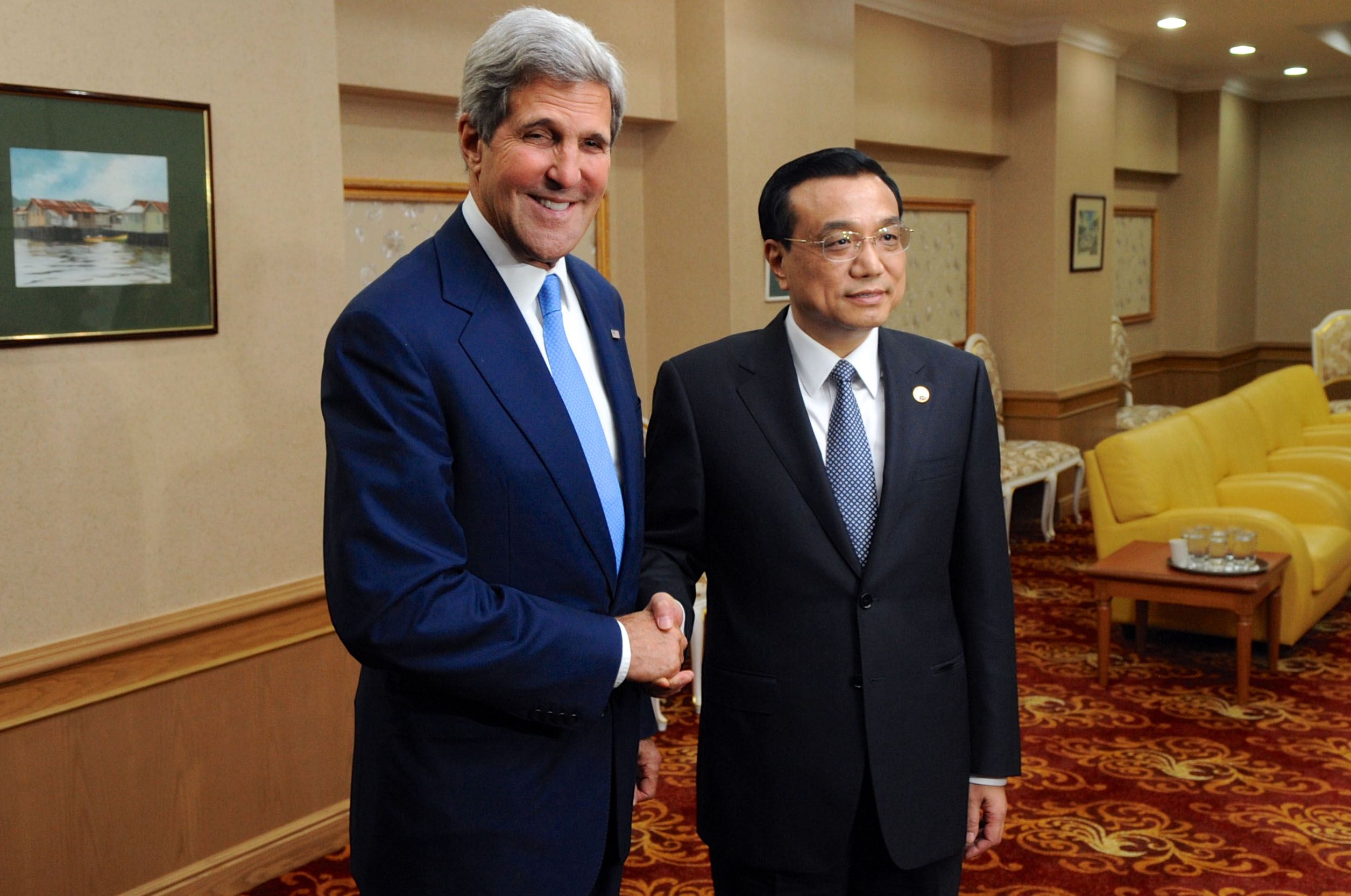 U.S. Secretary of State John Kerry and Chinese Premier Li Keqiang shakes hands for photographers before a meeting on the margins of the U.S.-ASEAN Summit in Bandar Seri Begawan, Brunei, on October 9, 2013. [State Department photo/ Public Domain]